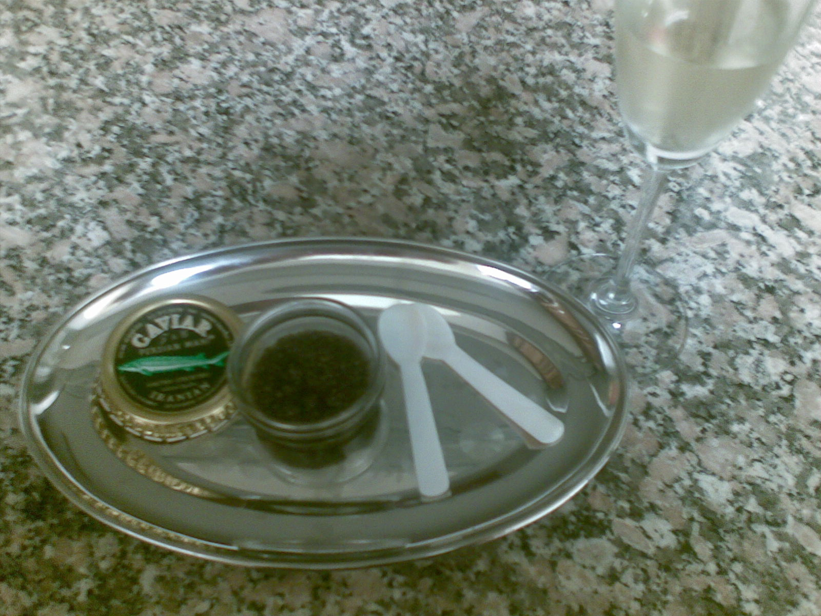 Iranian Ossetra Caviar (salted Acipenser persicus roe) with Champagne (Veuve Clicquot Brut)